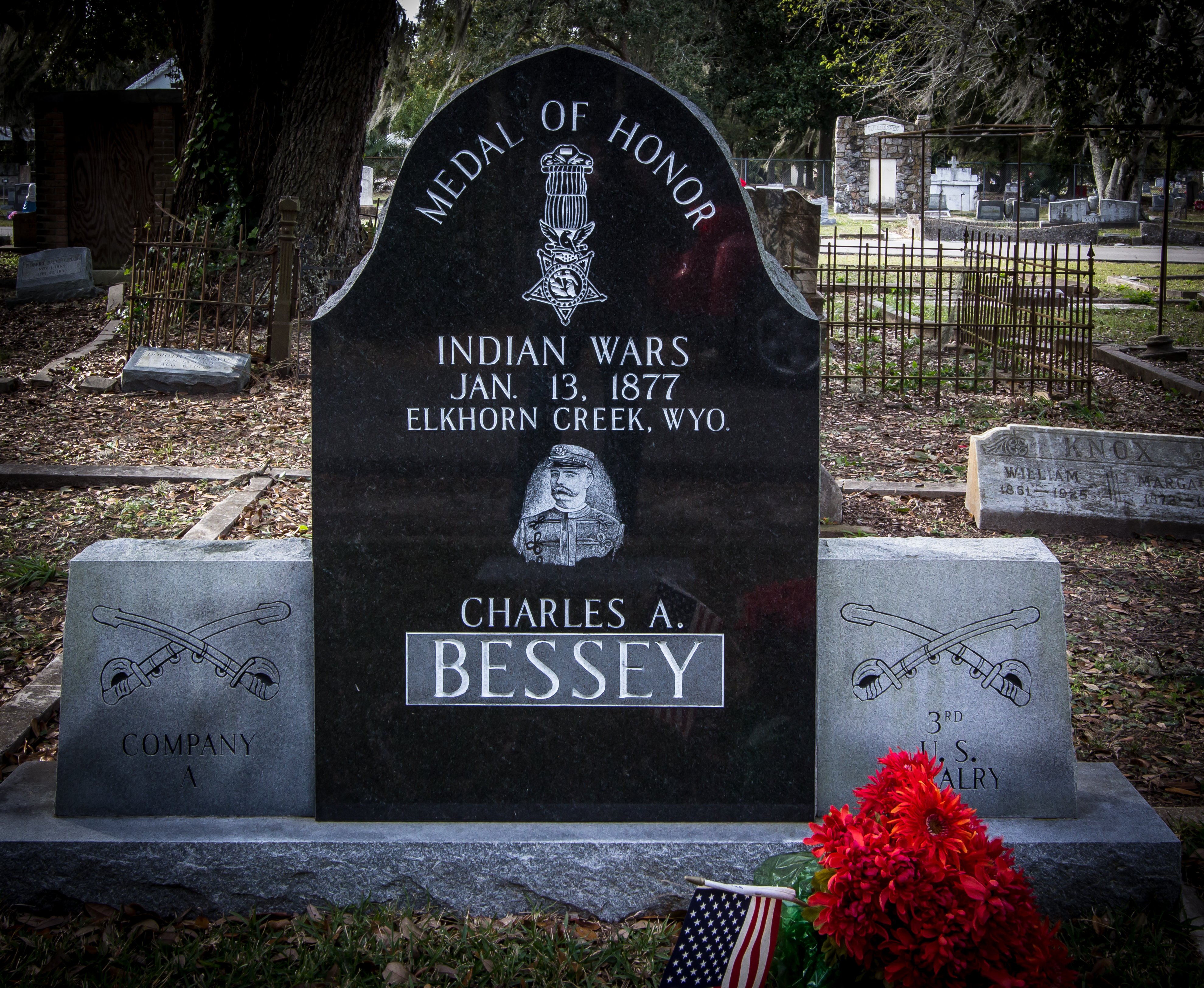 Grave Marker